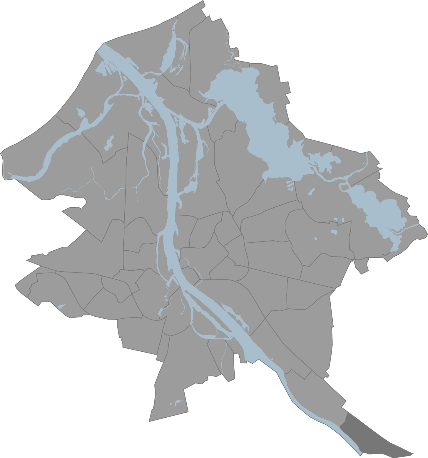 A map of Riga, Latvia with the eponymous commune highlighted